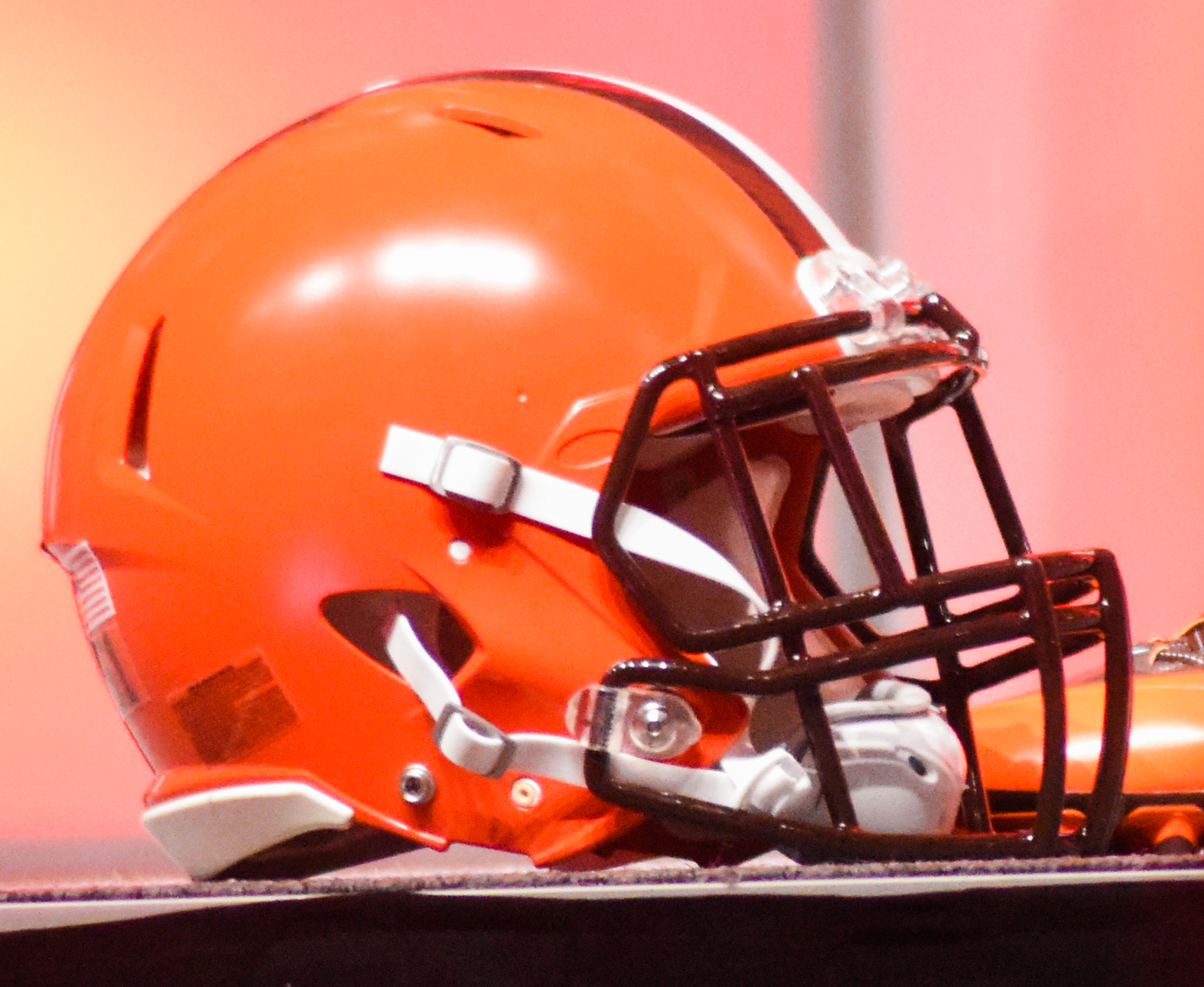 Cleveland Browns New Uniform Unveiling